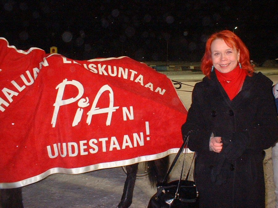 Finnish MP Pia Viitanen